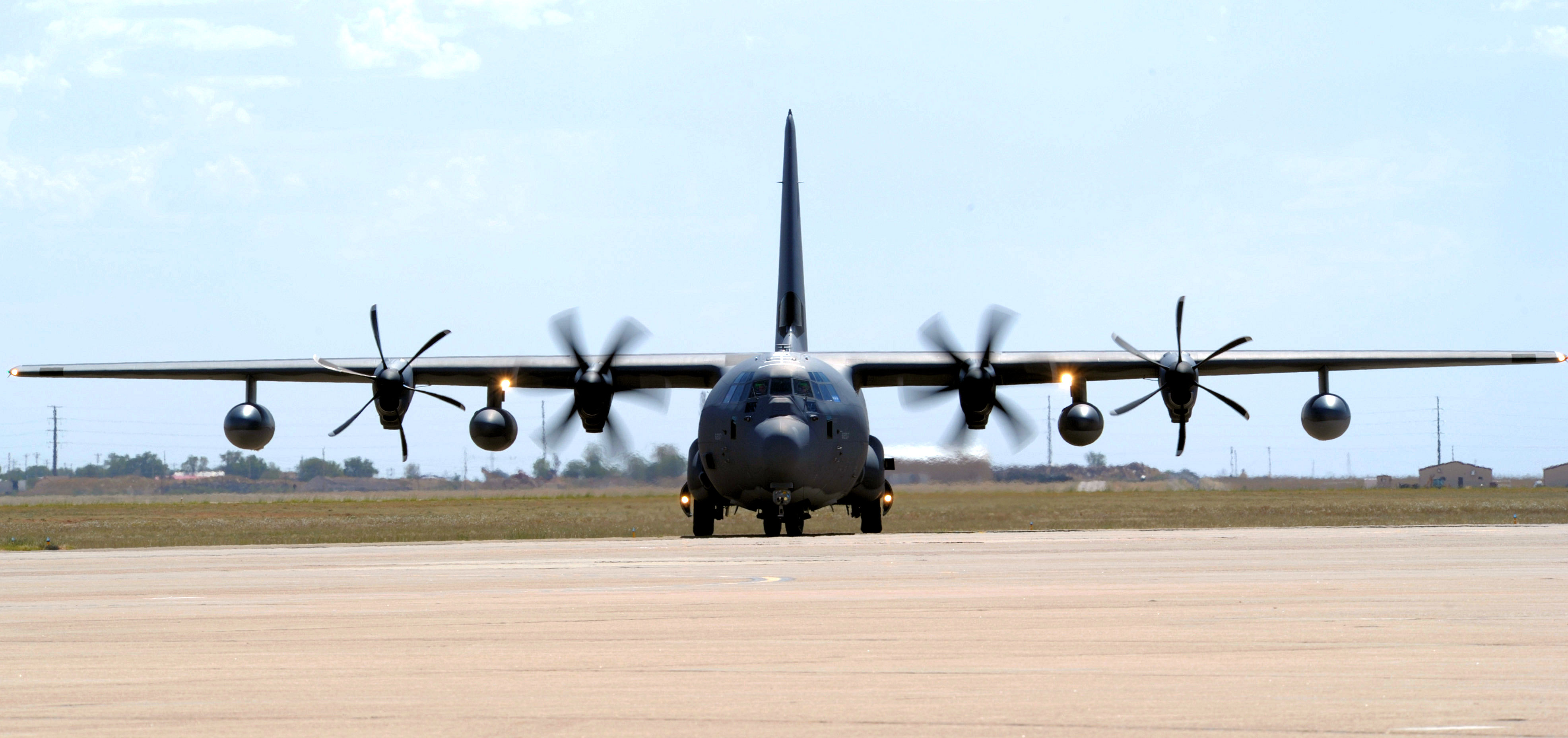 A new MC-130J Commando II taxis on the flightline at Cannon Air Force Base, N.M., Sept. 29, 2011. The aircraft was delivered to Cannon by Lt. Gen. Eric Fiel, Air Force Special Operations Command commander, and Brig. Gen. Stephen Clark, AFSOC director of plans, programs, requirements and assignments. (U.S. Air Force photo/Senior Airman James Bell)